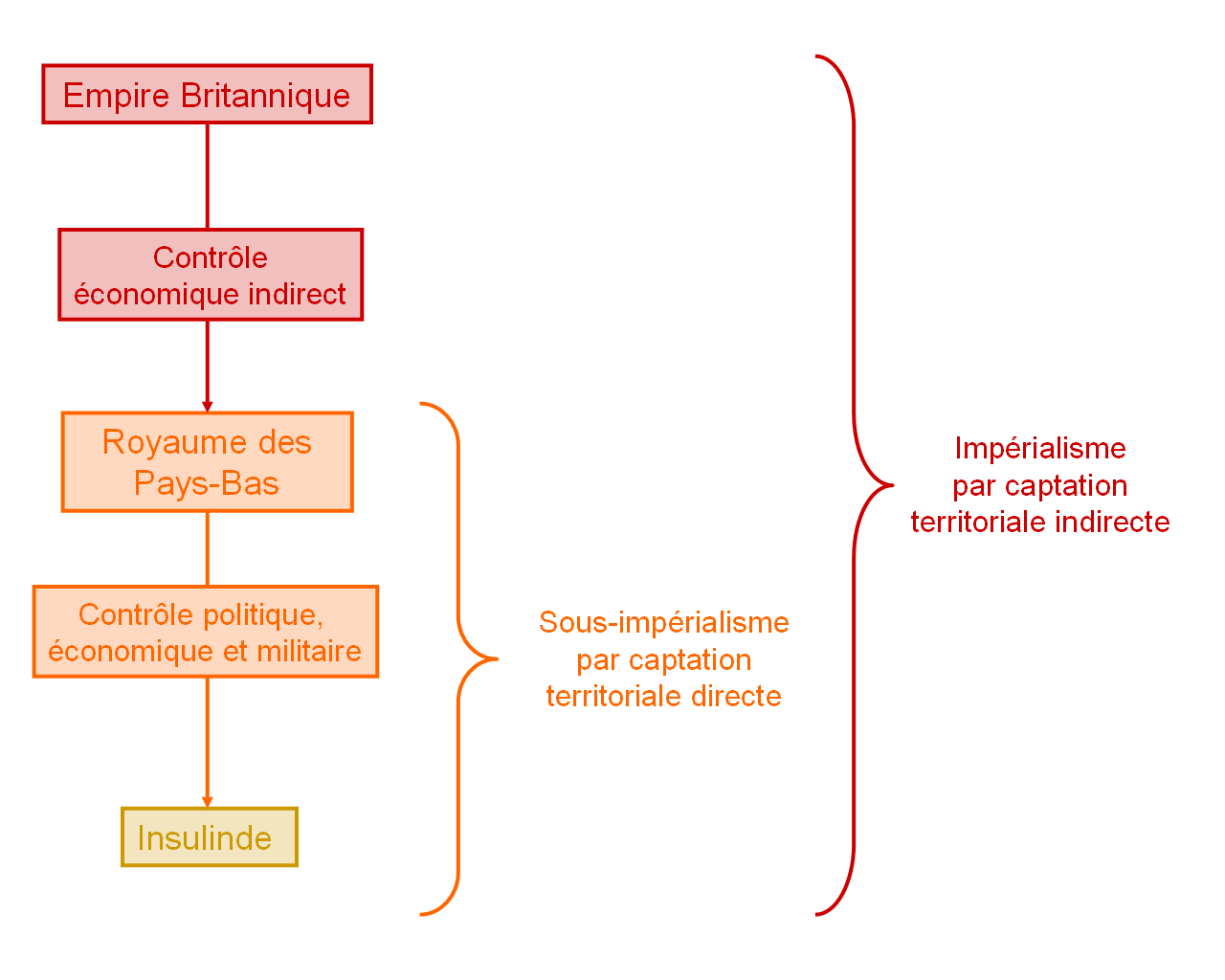 Imperialist model, with sub-imperialist constituent by control territorial direct, of control with indirect territorial illegal securement by the price control indirect of the empire colonial Dutch.